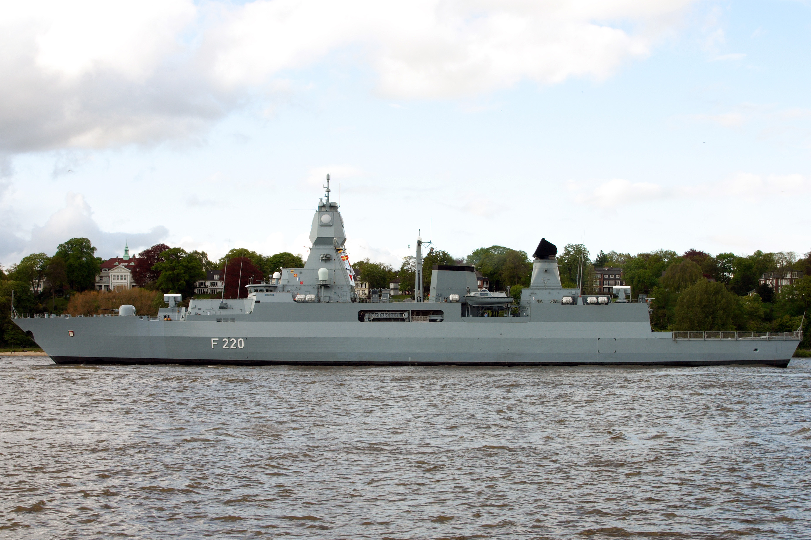 Frigate ”Hamburg“ (F 220), a F124 class frigate (Sachsen class) of the German Navy.